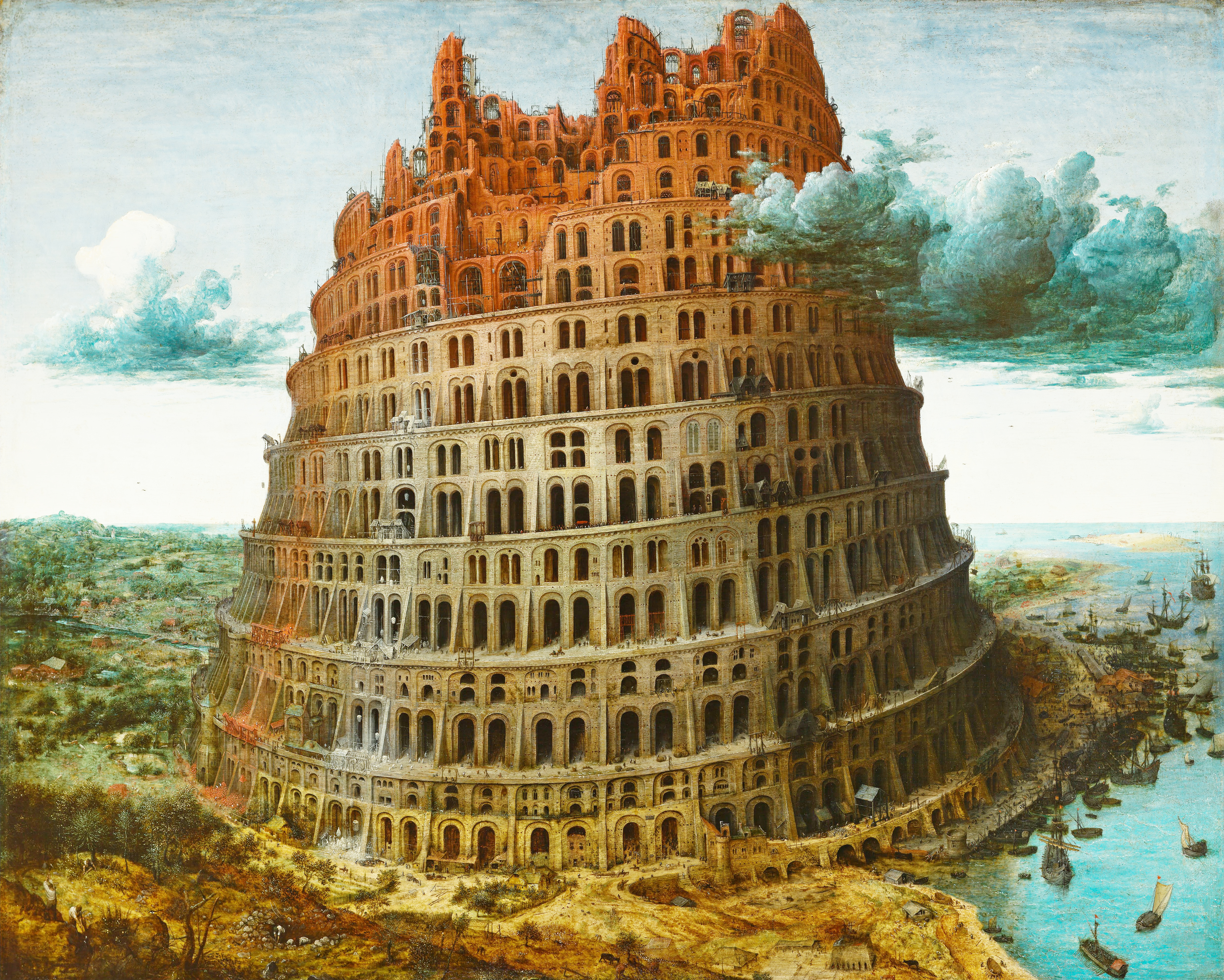 Bruegel painted three versions of the Tower of Babel. One is kept in the Museum Boijmans Van Beuningen in Rotterdam, the second in the Kunsthistorisches Museum in Vienna (see Category:The Tower of Babel by Pieter Bruegel the Elder), while the location of the third version (a miniature on ivory) is unknown.